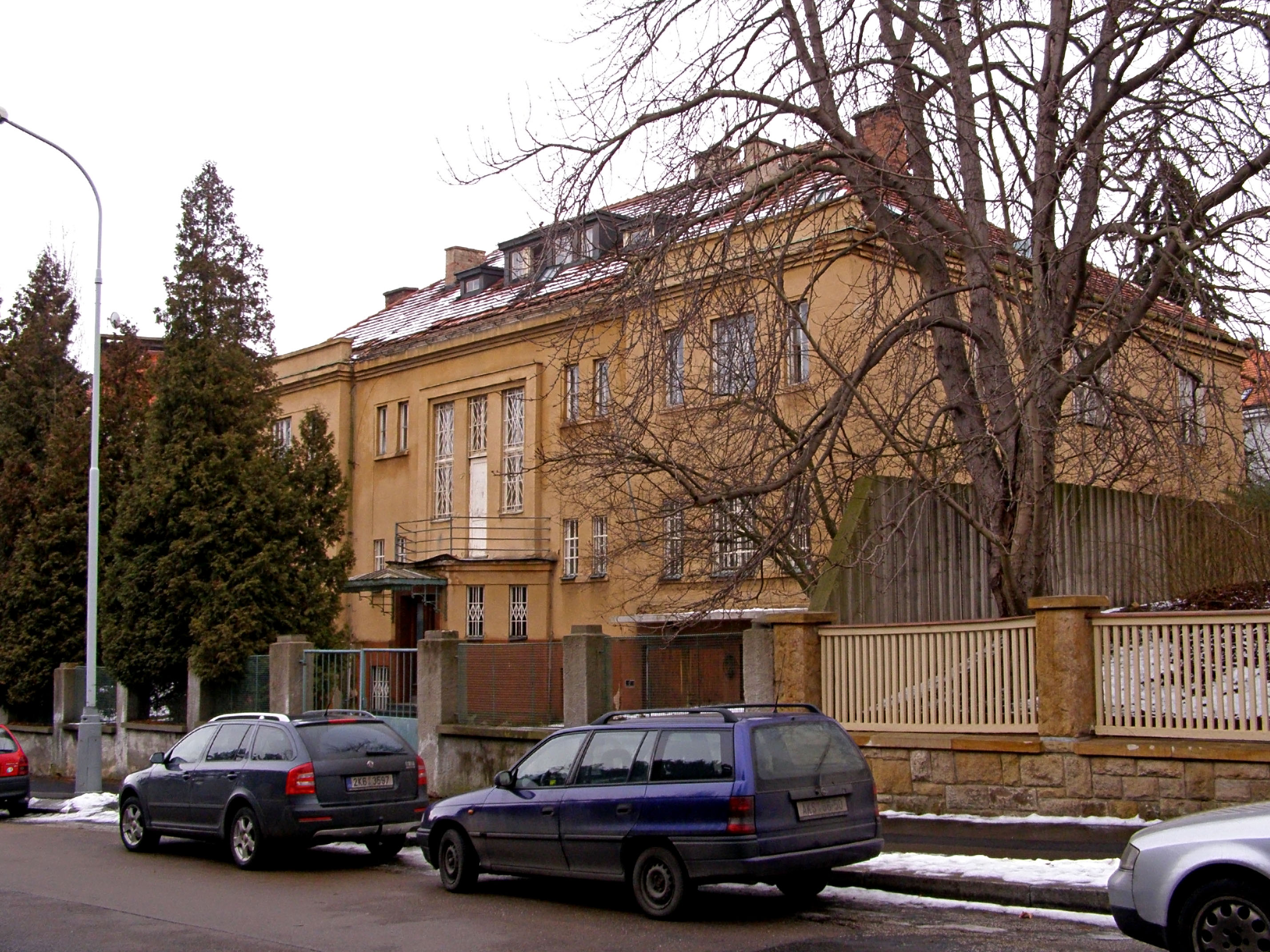 Prague, former Zentralstelle für jüdische Auswanderung